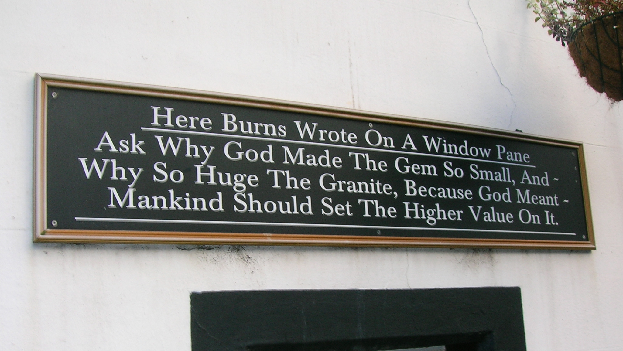 Details of a glass windowpane inscription by Robert Burns, Black Bull Hotel, Dumfries & Galloway, Scotland.